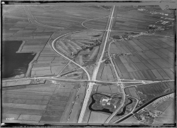 Fort bijlmer in 1939 (Duivendrecht)